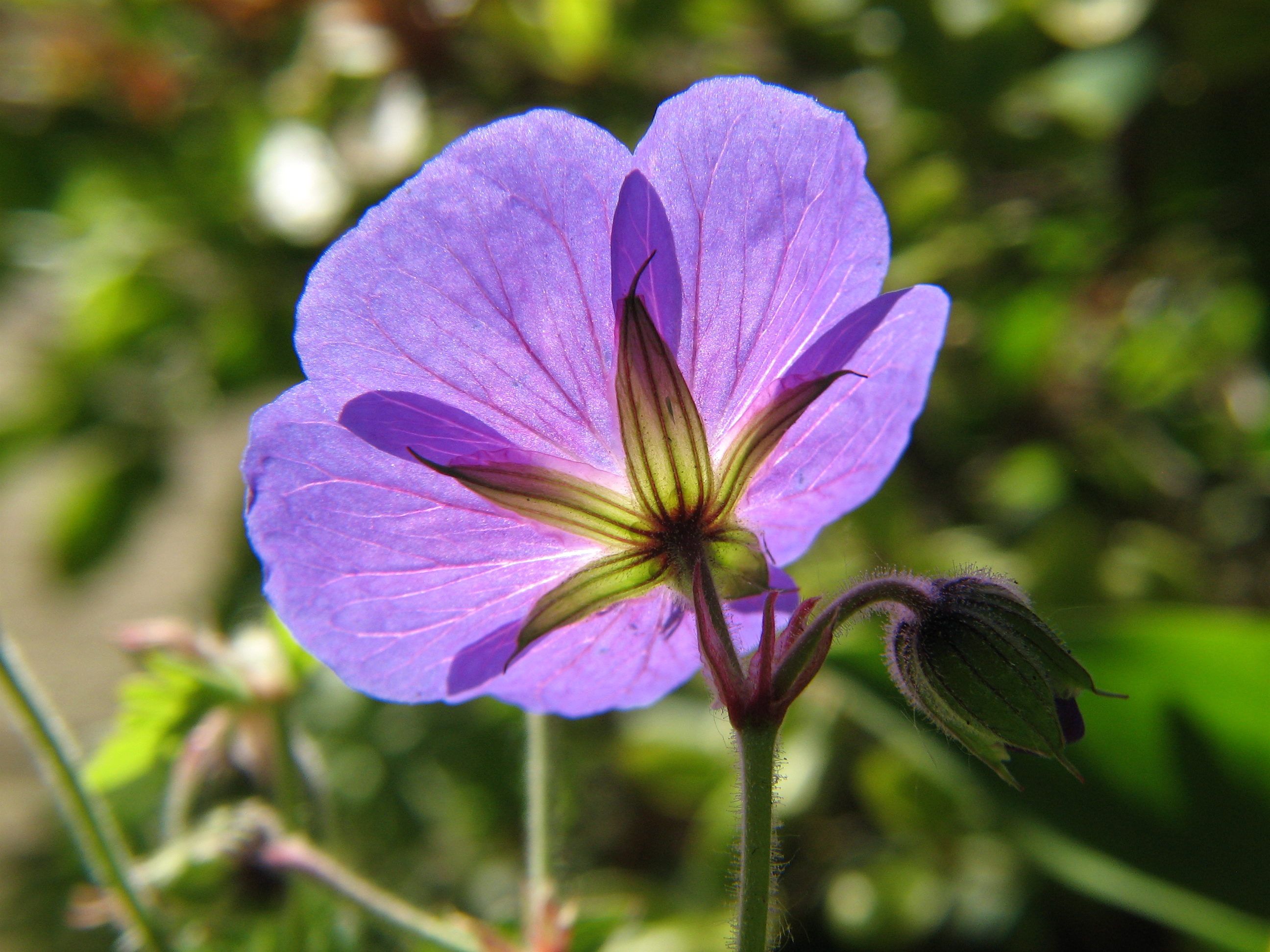 Scented geranium